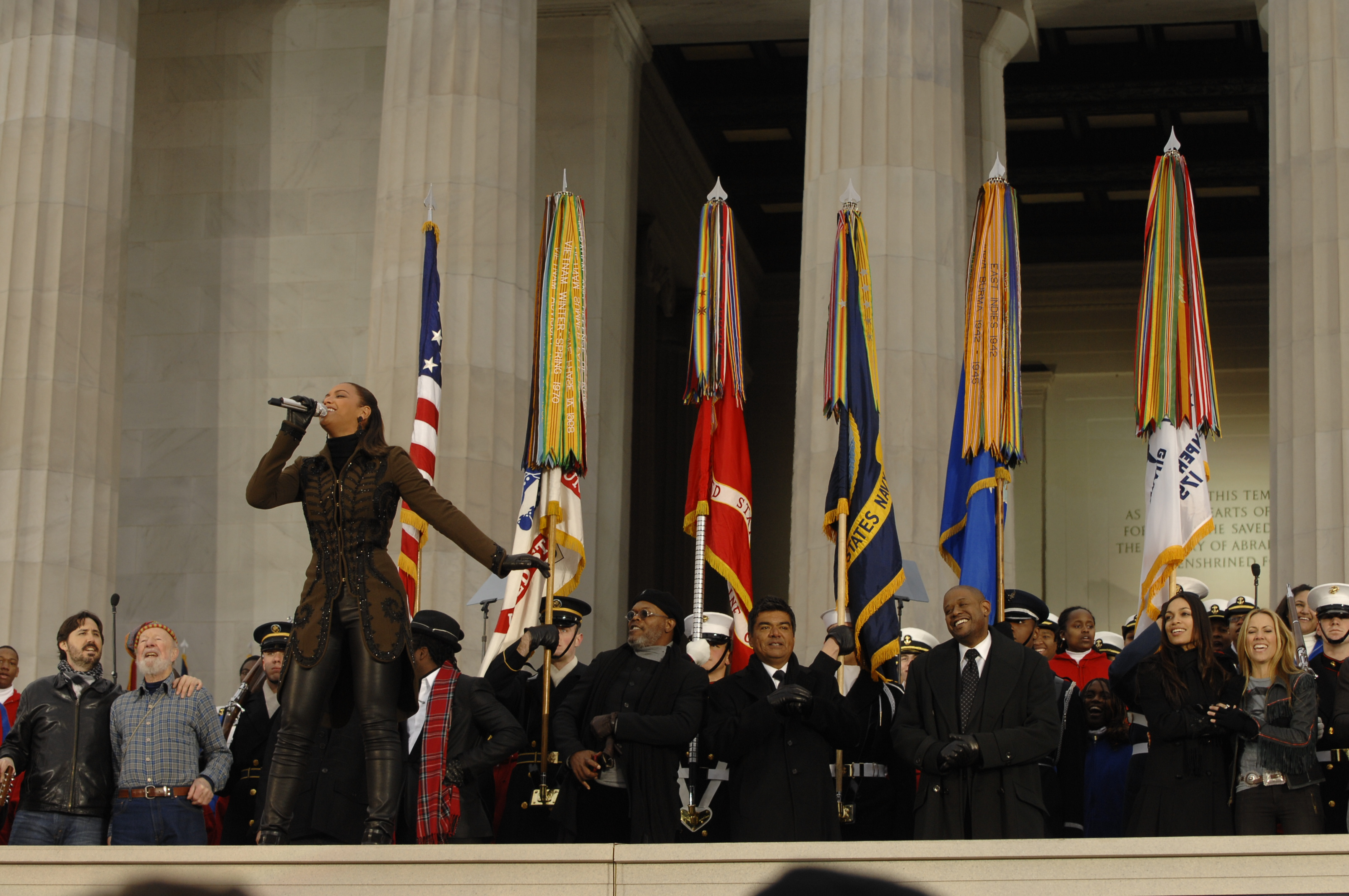 Beyoncé sings "America the Beautiful" at the Lincoln Memorial on the National Mall in Washington, D.C., Jan. 18, 2009, during the inaugural opening ceremonies. More than 5,000 men and women in uniform are providing military ceremonial support to the presidential inauguration, a tradition dating back to George Washington's 1789 inauguration.